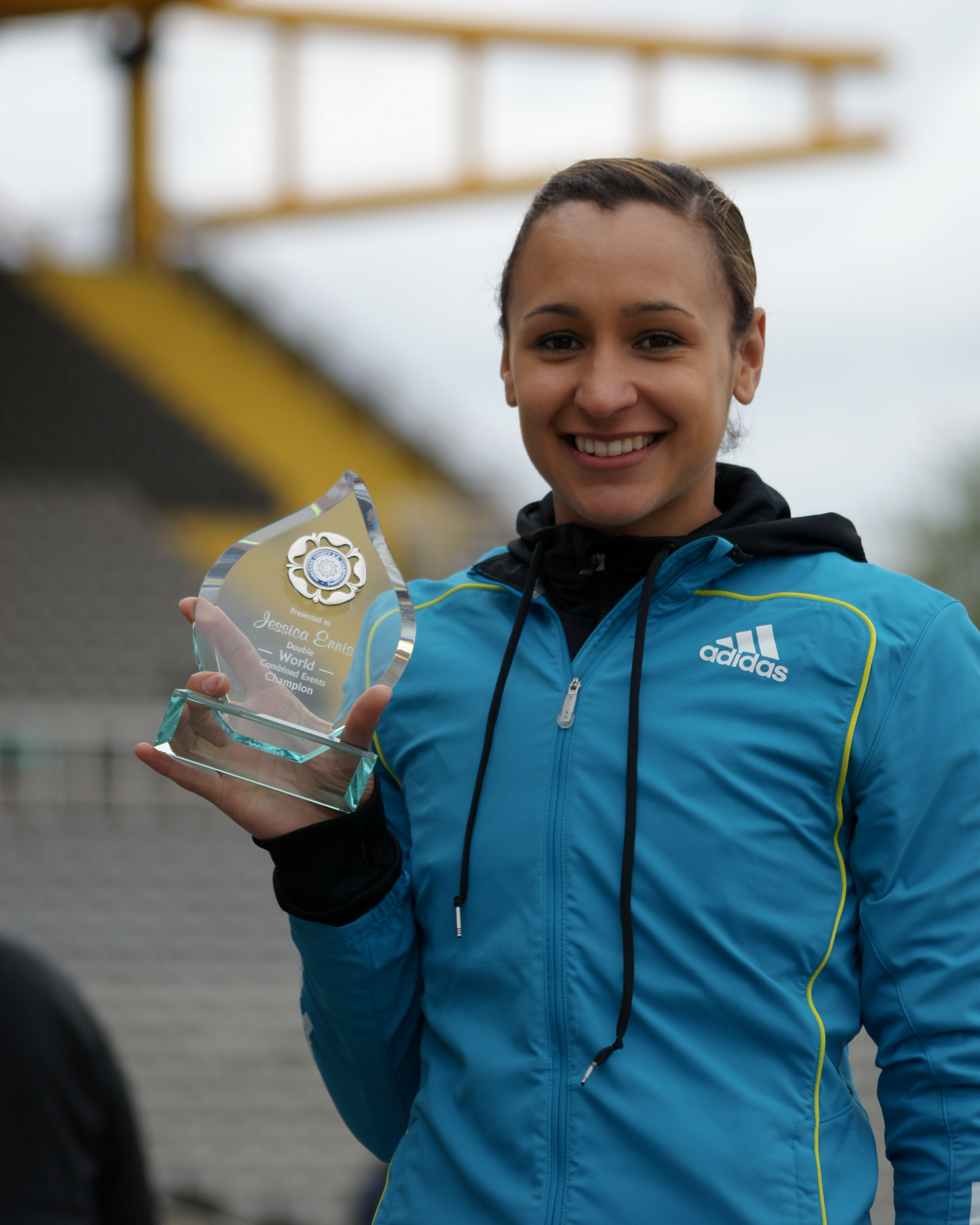 Jessica Ennis, Yorkshire Track and Field Championships-48